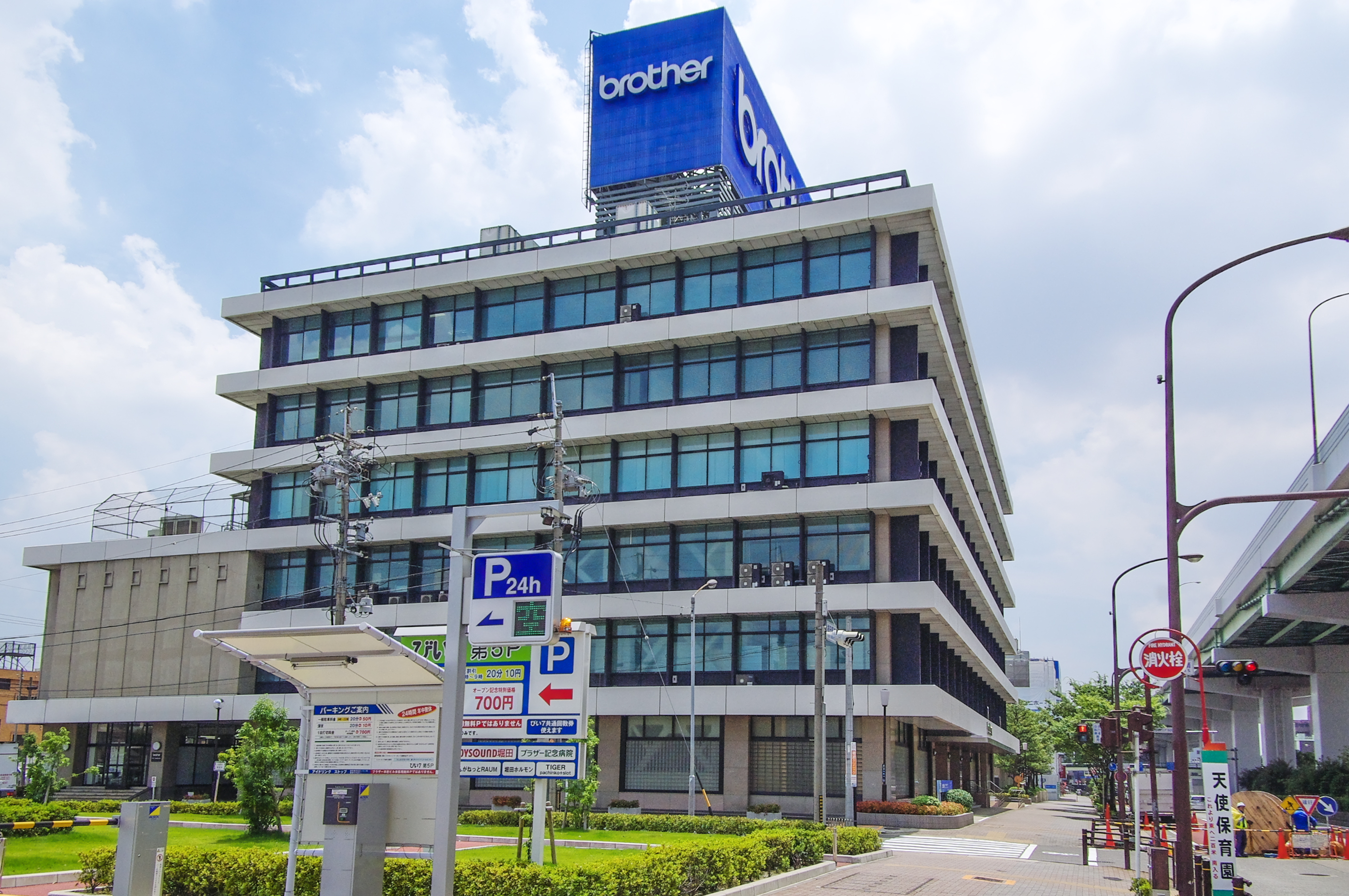 Photograph of the headquarters building of Brother Industries in Mizuho-ku, Nagoya, Aichi Prefecture, Japan.